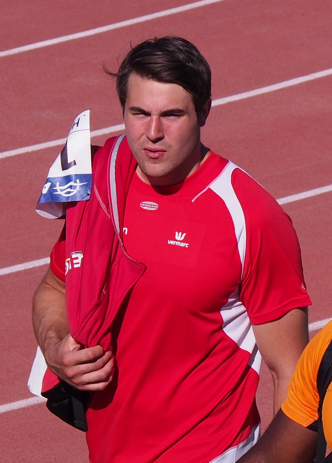 Philip Milanov during 2015 European Team Championships First League, held in Heraklion at 20-21 June.